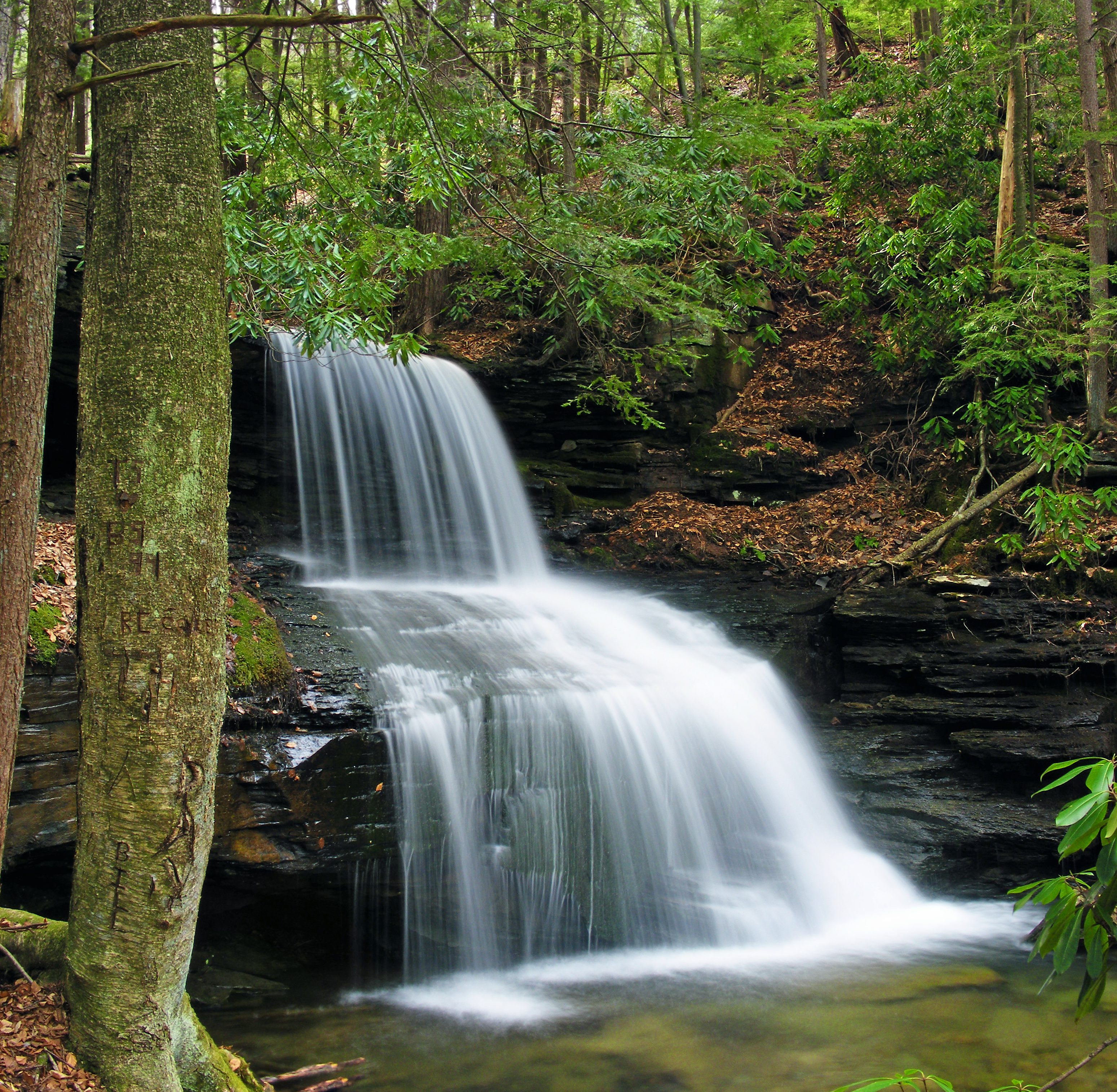 Round Island Run Falls (side view), Sproul State Forest, Clinton County. in East Keating Township, Clinton County, Pennsylvania